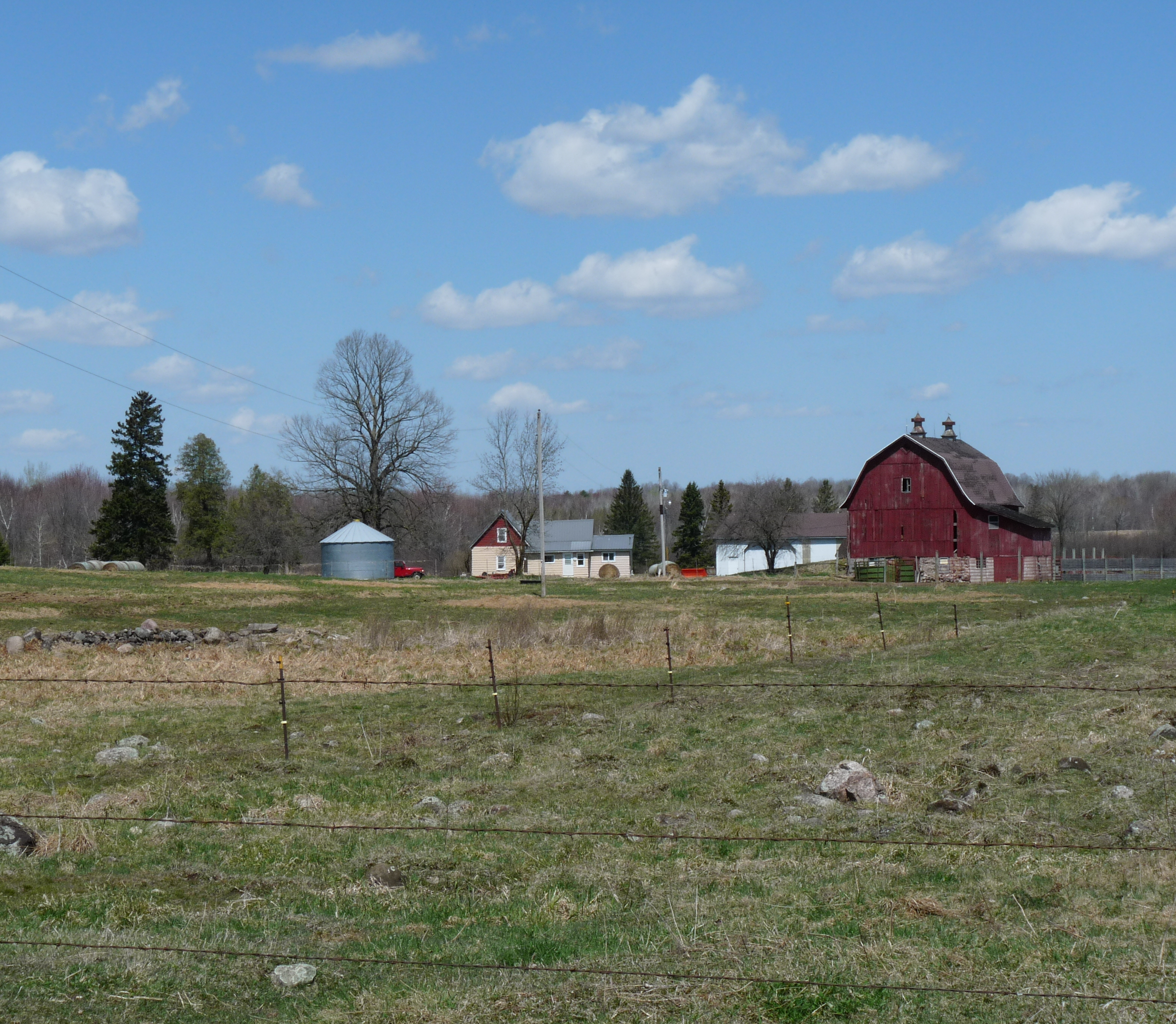 Many farms in Roosevelt in central Wisconsin were carved from choppy, rocky land, like this one.